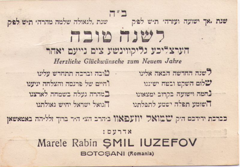 Shana Tova from rabbi Shmuel Iuzefov of Butoshan - Haifa